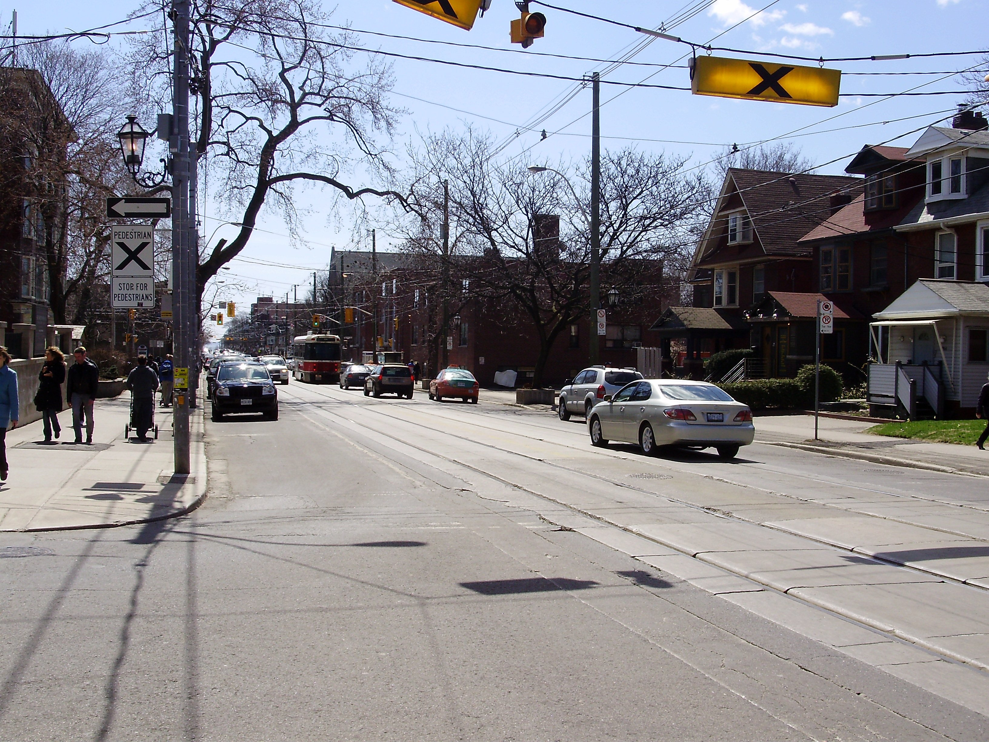 A 504 King streetcar travels south along Roncesvalles Avenue in Toronto, Ontario, Canada, photographed from just north of Westminster Avenue.